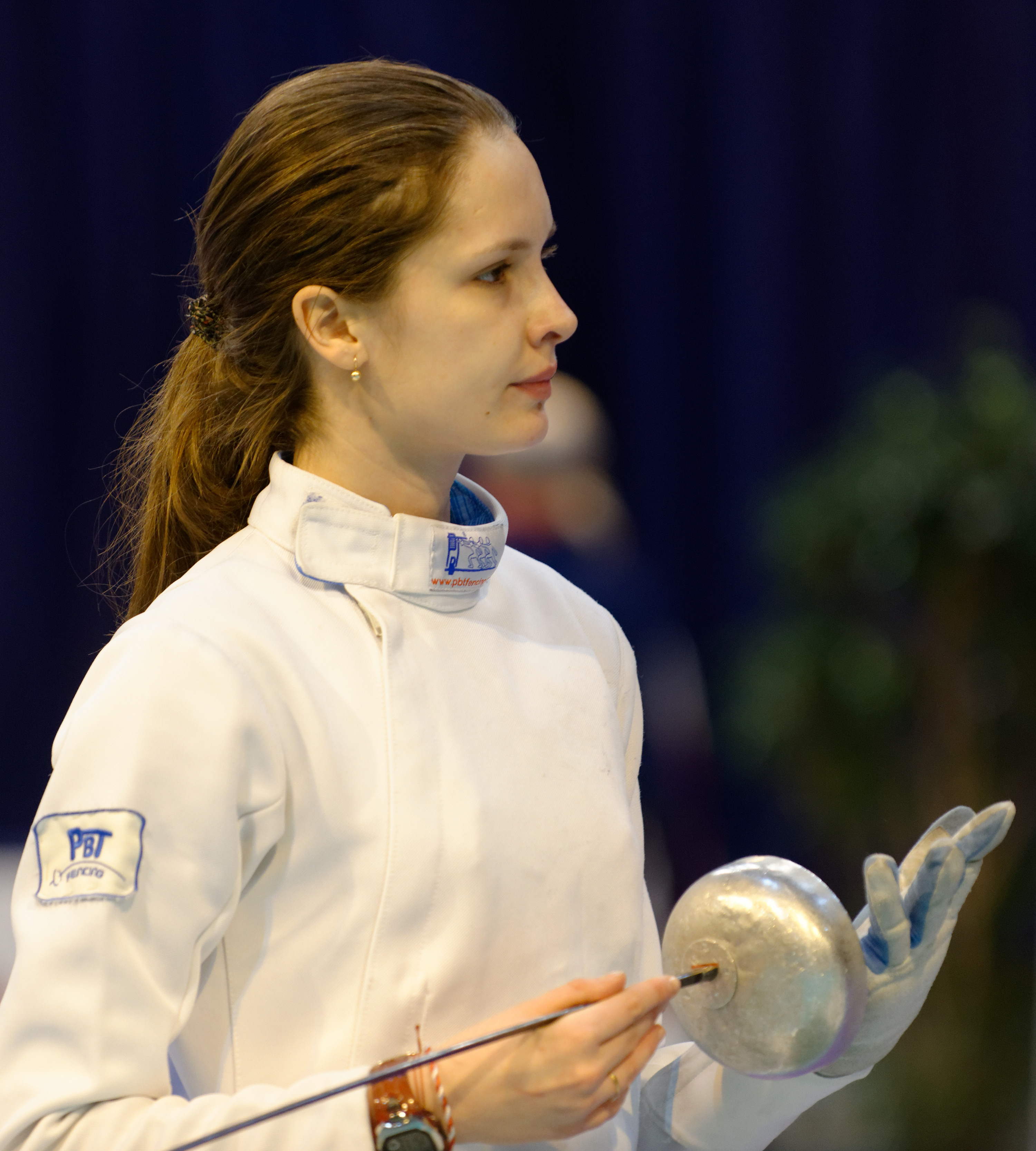 Simona Deac during the 1/16 finals of the Challenge international de Saint-Maur 2013, women's épée World Cup tournament.